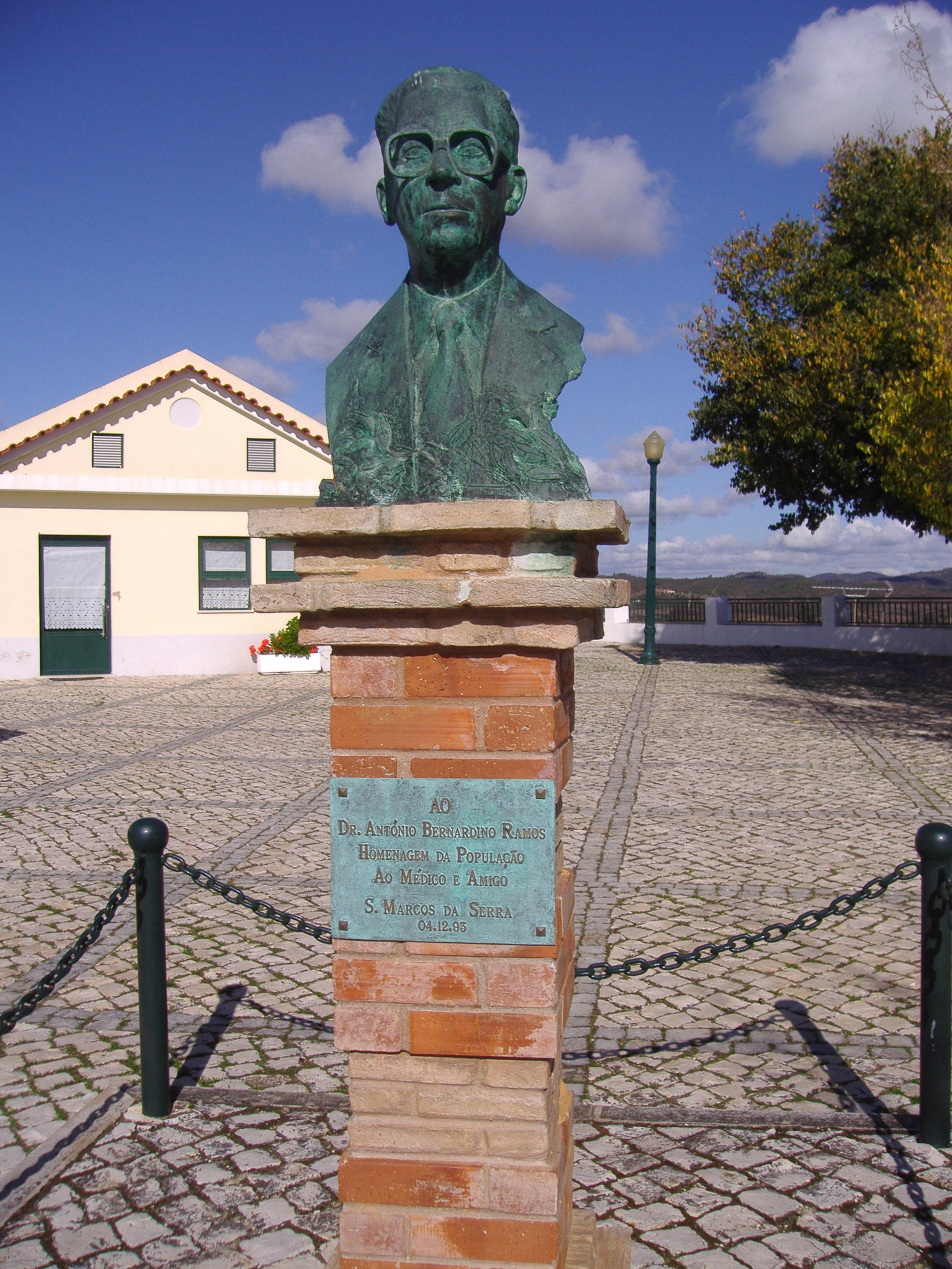 The Bust of Doctor Antonio Bernardino Ramos who was a doctor in the village of São Marcos da Serra, Silves, Portugal